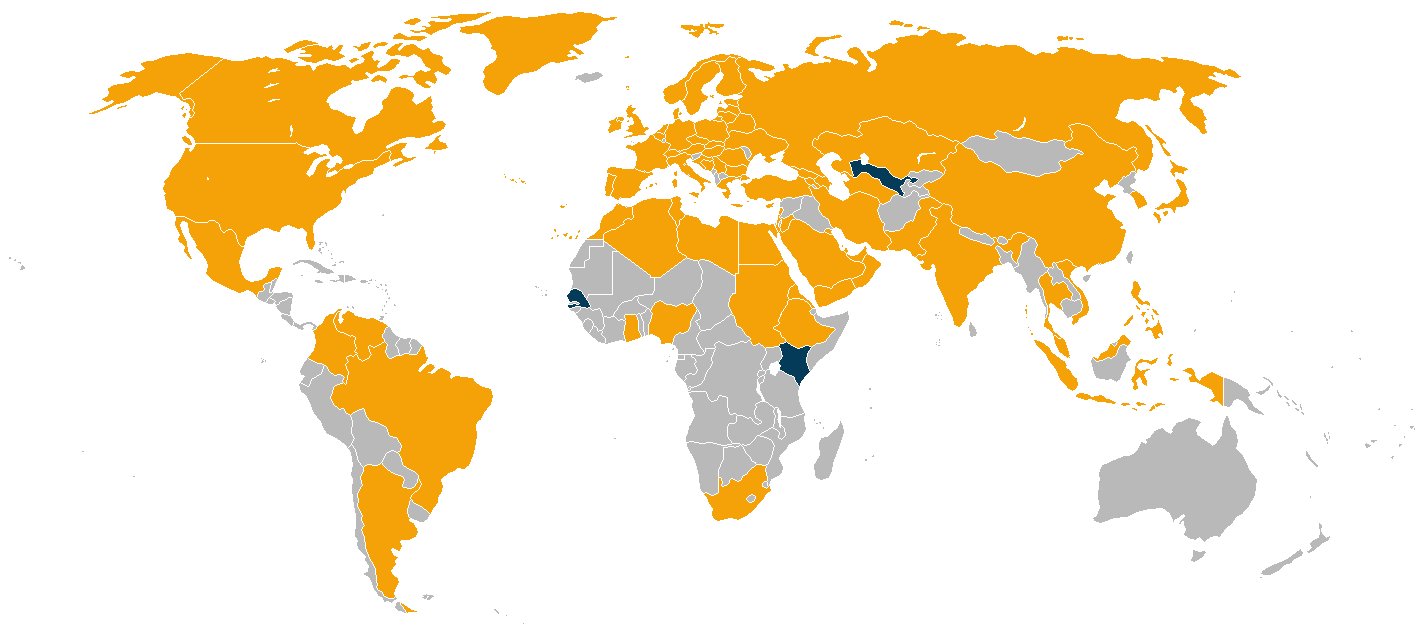 Map of Lufthansa targets. Lufthansa (without Star Alliance) & Lufthansa Cargo. Only Lufthansa Cargo.